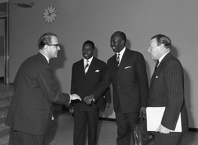 Title: Bonn, Auswärtiges Amt, Politiker aus Guinea Extra information: Entwicklungshilfe, Wirtschaftsminister Dr. Béavogui und Staatssekretär für Information Diop im Auswärtigen Amt People in the image: Béavogui, Lansana Louis Dr.: Premierminister, Außenminister, Guinea Factual corrections and alternative descriptions are encouraged separately from the original description. Additionally errors can be reported at this page to inform the Bundesarchiv. Original historic description: Guinea: Wirtsch. Min. Beavogui und Staatsekr. für Inf. Diop im AA.